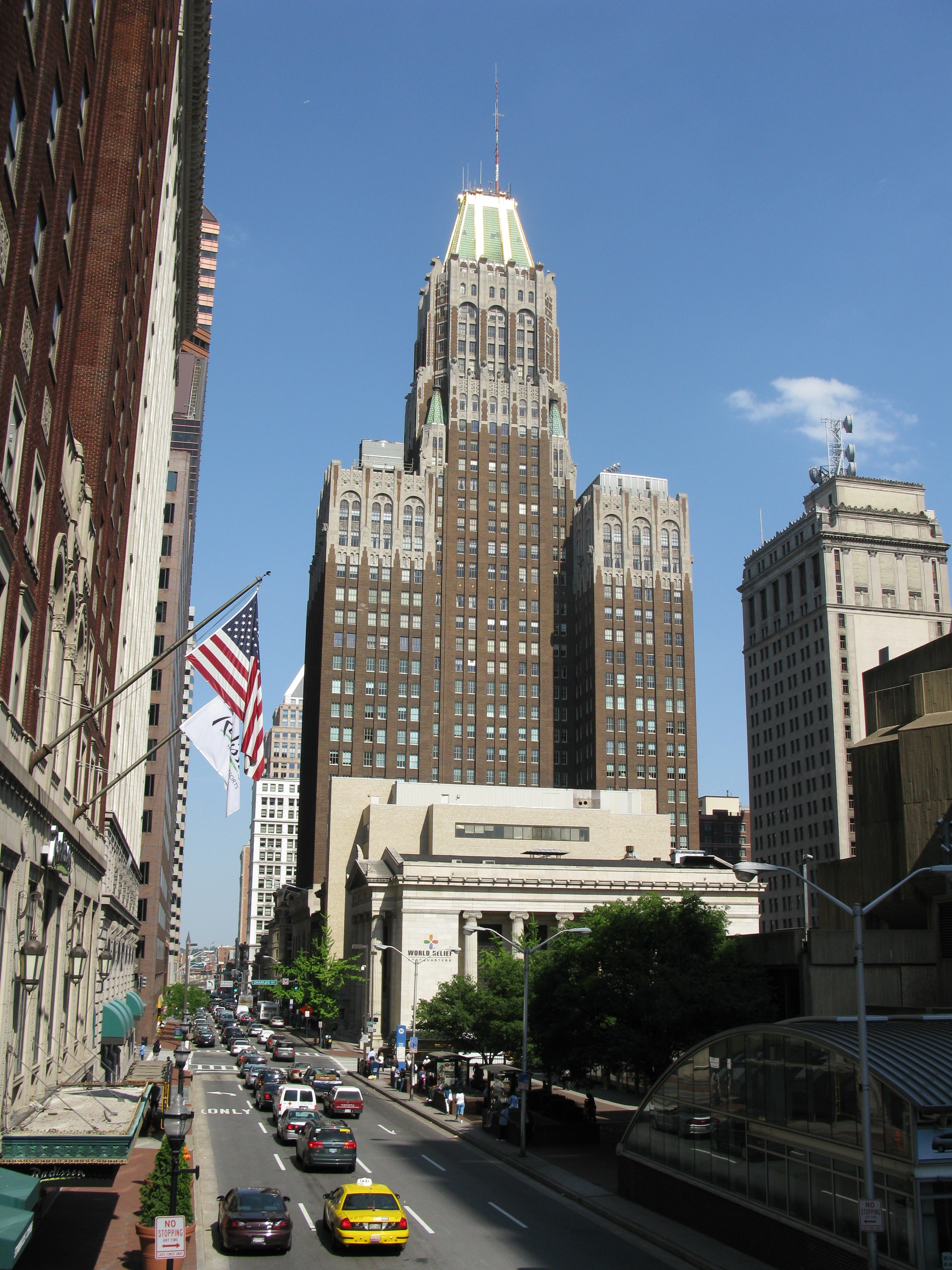 West Baltimore Street as it approaches North Charles Street, Baltimore, Maryland.